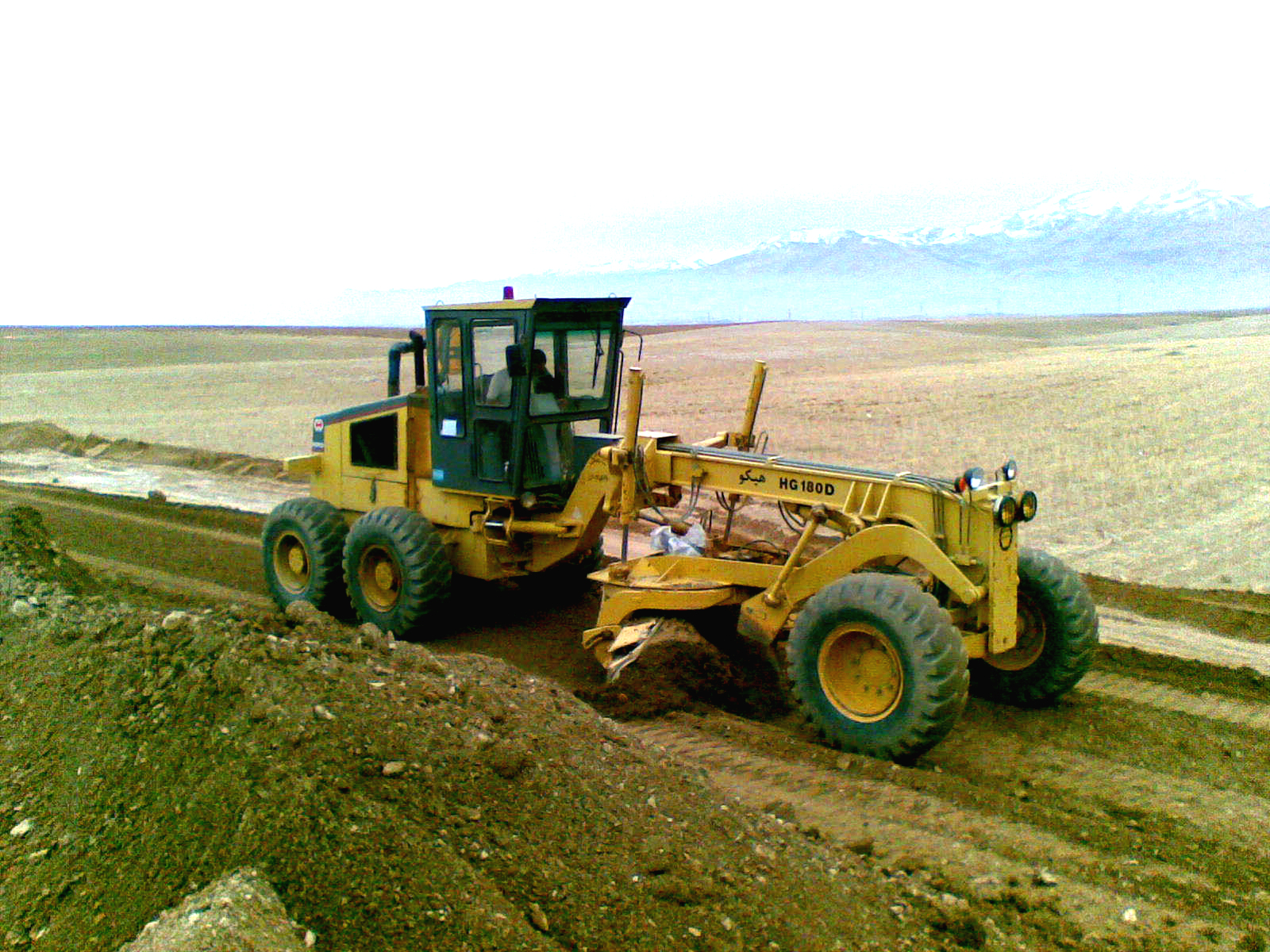 HEPCO Grader roadworks in Markazi province.